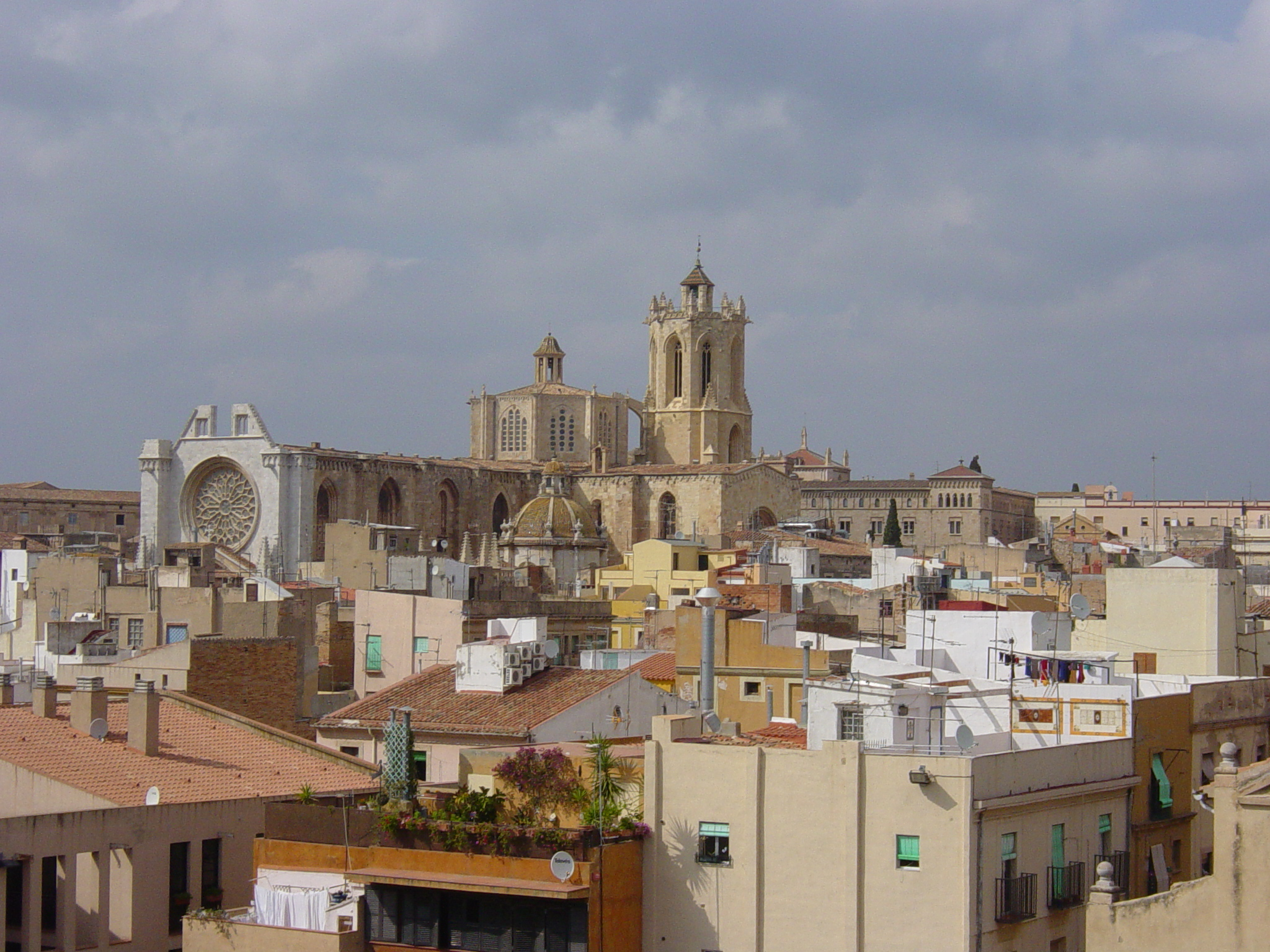 Cathedral in Tarragona, Spain